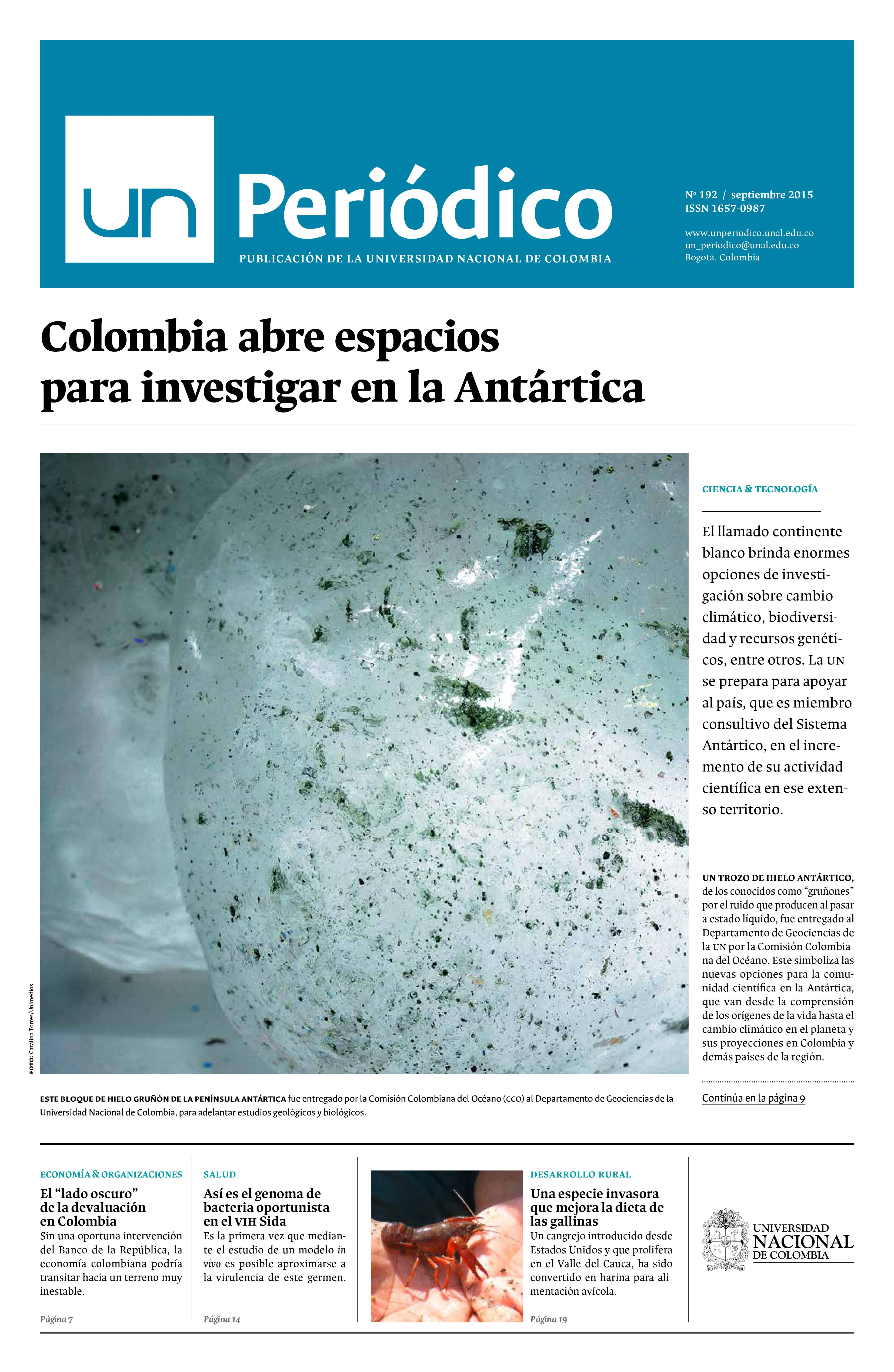 Newspaper of the National University of Colombia